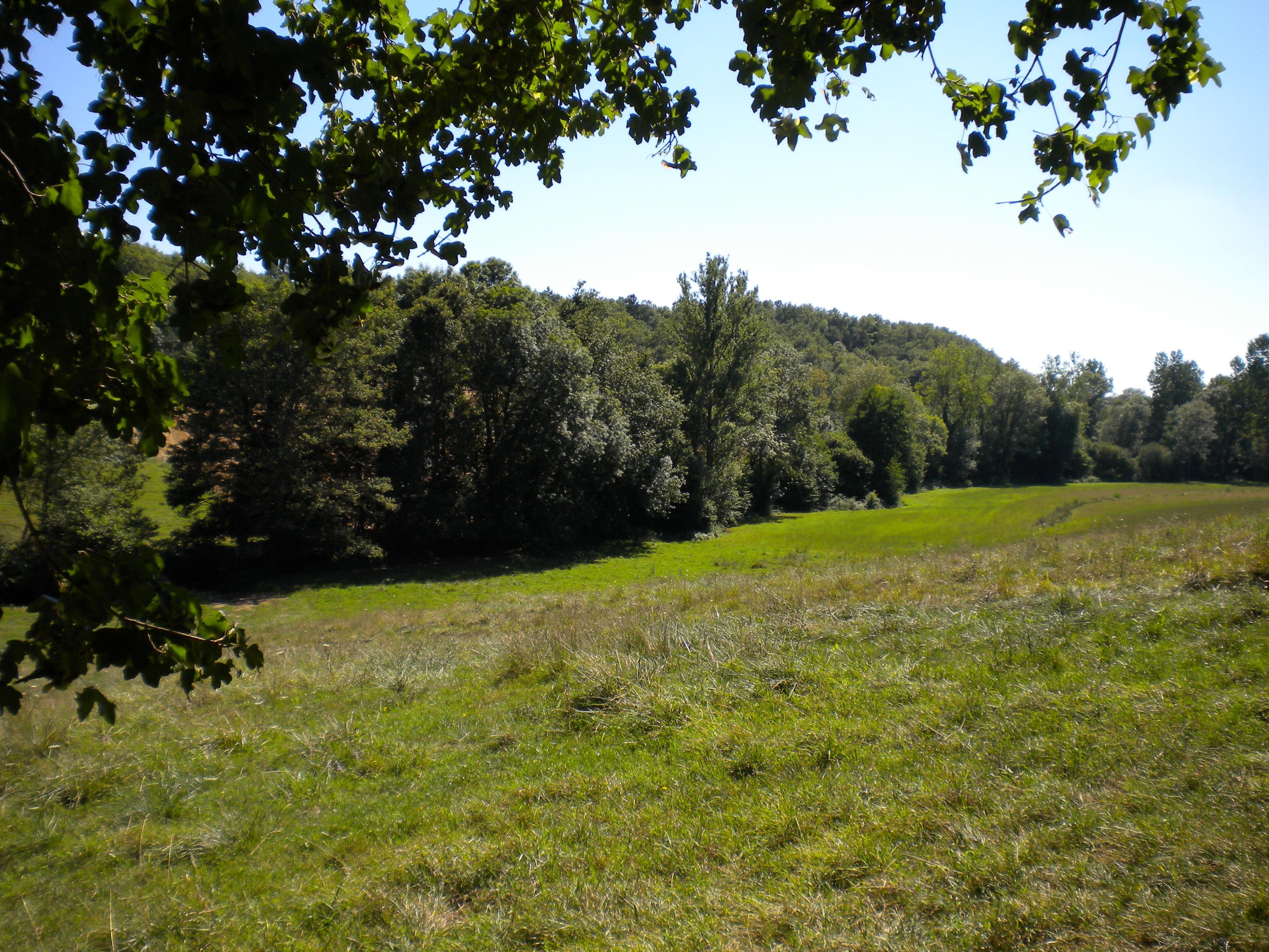 The Marcourive valley, just upstream from Teyjat, Dordogne, France.